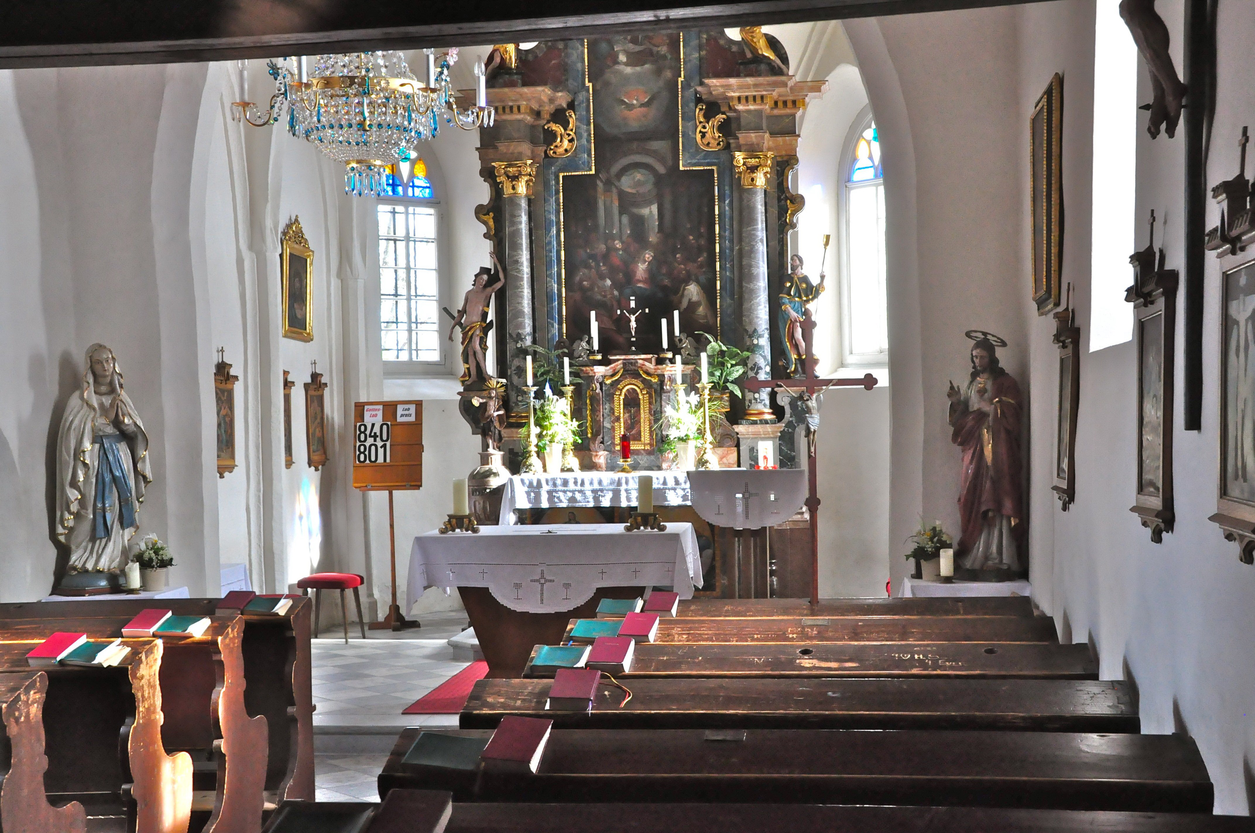 Interior of the parish church Holy Ghost in Heiligengeist, municipality Villach, Carinthia, Austria, EU